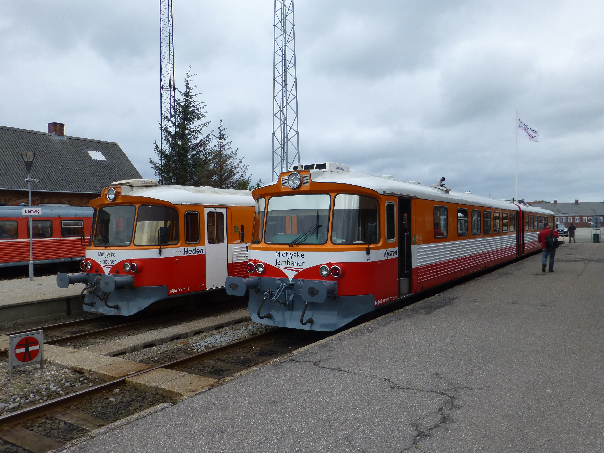 Diesel multiple unit known as Y-tog at Lemvig Station in Denmark. MJbaD YM 16 + YS 16 "Heden" and MJbaB YM 40 + YM 39 "Kysten".